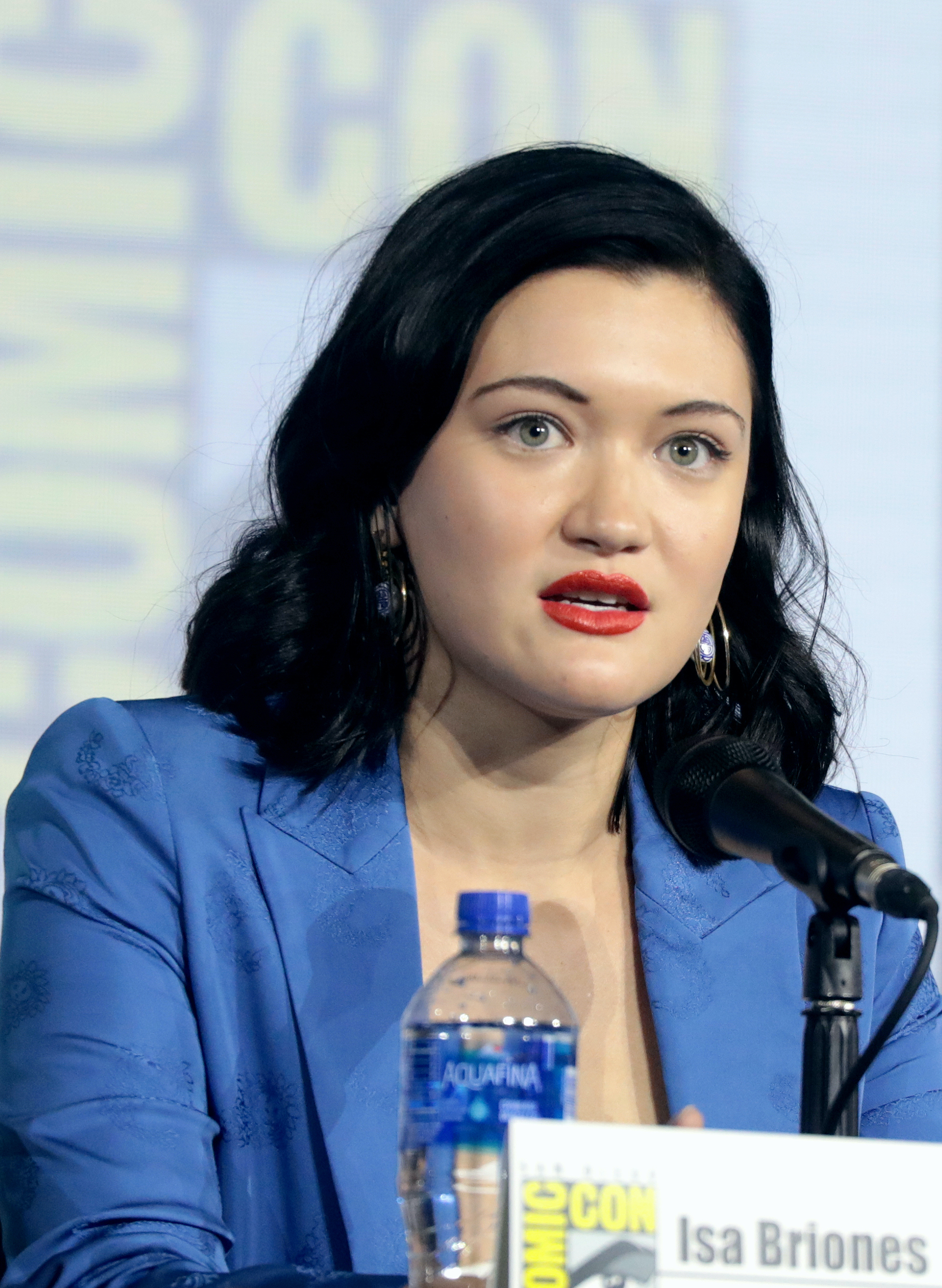 Isa Briones speaking at the 2019 San Diego Comic Con International, for "Star Trek: Picard", at the San Diego Convention Center in San Diego, California.